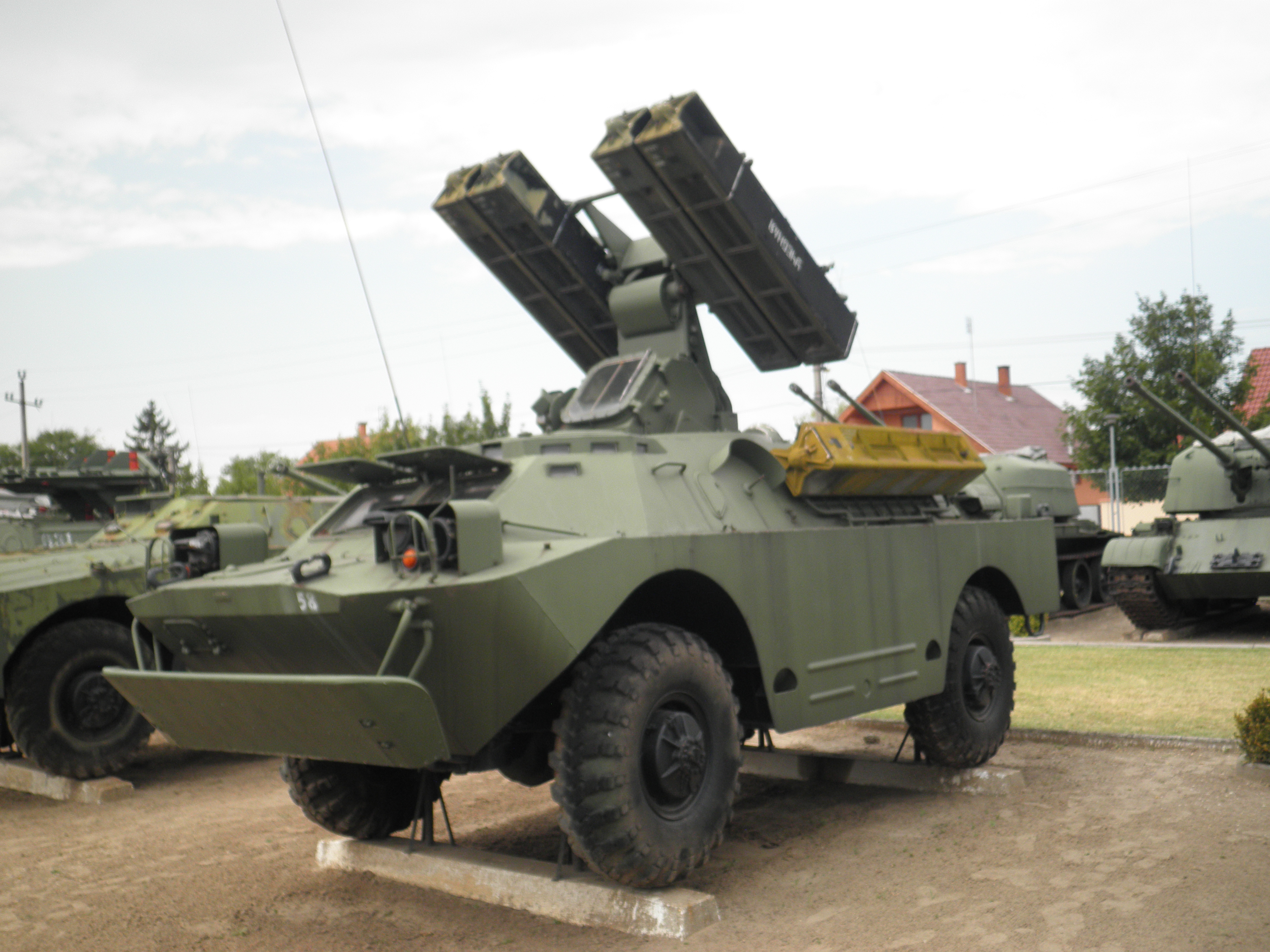 9K31 Strela-1 vehicle-mounted short-range, low altitude infra-red guided surface-to-air missile system in Army History Museum and Park in Kecel, Hungary